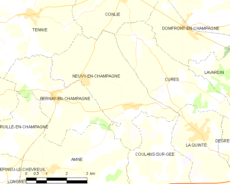 Map of French municipality